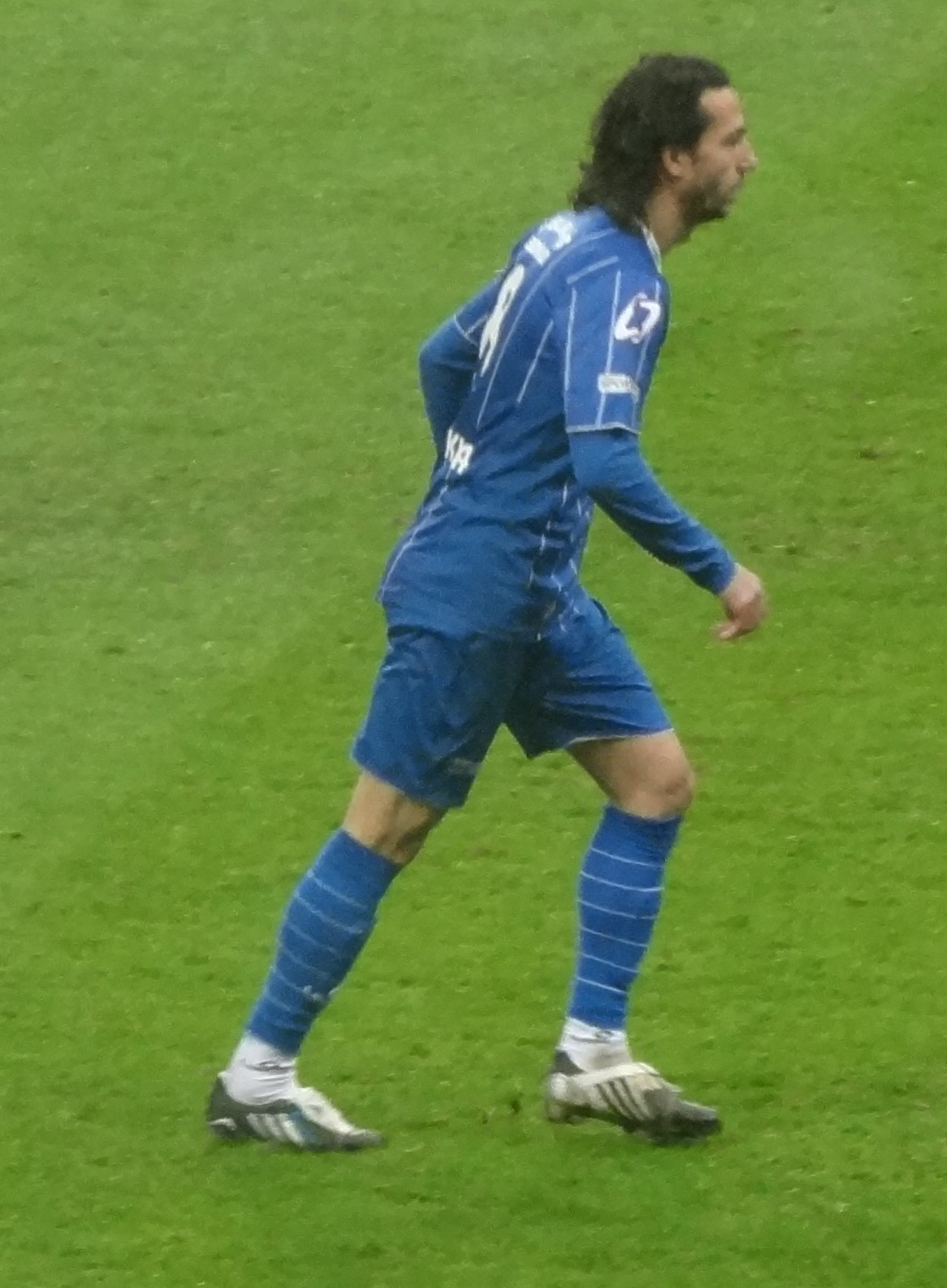 Bilal Kısa GS Karşısında